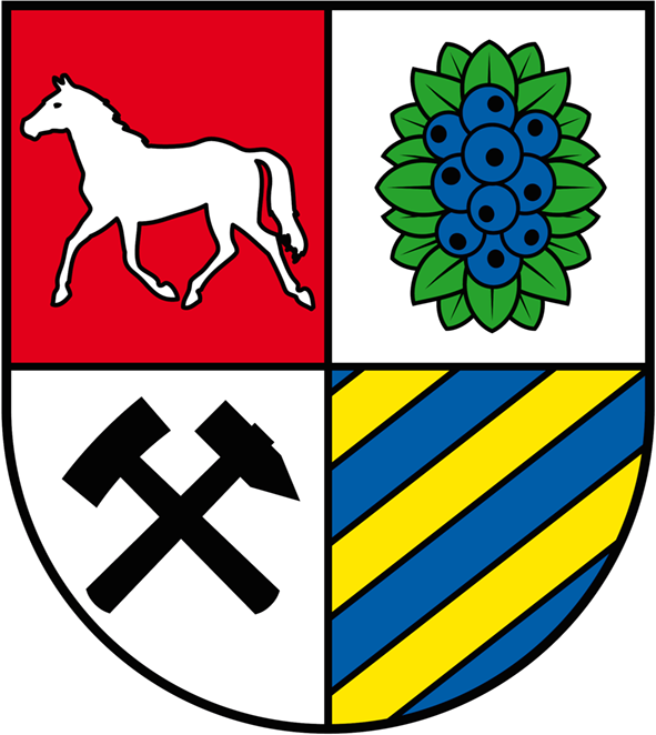 Coat of arms of Grethem